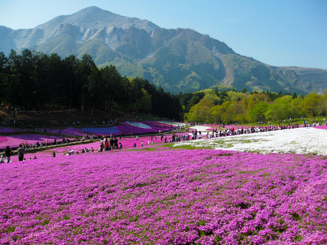 羊山公園の芝桜の丘 (Phlox subulata in Chichibu) 02 May, 2010